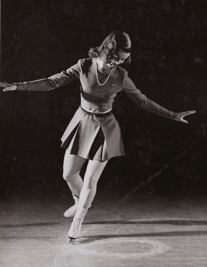 Title / Titre : North American and Canadian Women's Figure Skating Champion, Barbara-Ann Scott, Ottawa / La championne canadienne et nord-américaine de patinage artistique Barbara Ann Scott, à Ottawa Creator(s) / Créateur(s) : Fred Warrander Date(s) : March 1946 / mars 1946 Reference No. / Numéro de référence : MIKAN 4309973, 4310242 Location / Lieu : Ontario, Canada Credit / Mention de source : Fred Warrander. Canada. National Film Board of Canada. Photothèque. Library and Archives Government of Canada, e010966709 / Credit: National Film Board of Canada. Photothèque / Library and Archives Canada Fred Warrander. Canada. Office national du film du Canada. Photothèque. Bibliothèque et Archives Canada, e010966709 Copyright: Creative Commons Attribution